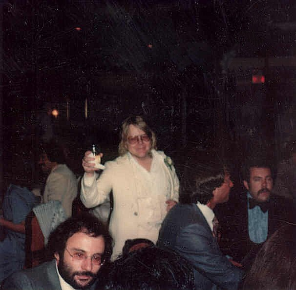 Paul Williams at the party at Dillon's Disco, 1801 Gayley Avenue, Westwood, Los Angeles, California, after the premiere of A Star Is Born, December 18, 1976